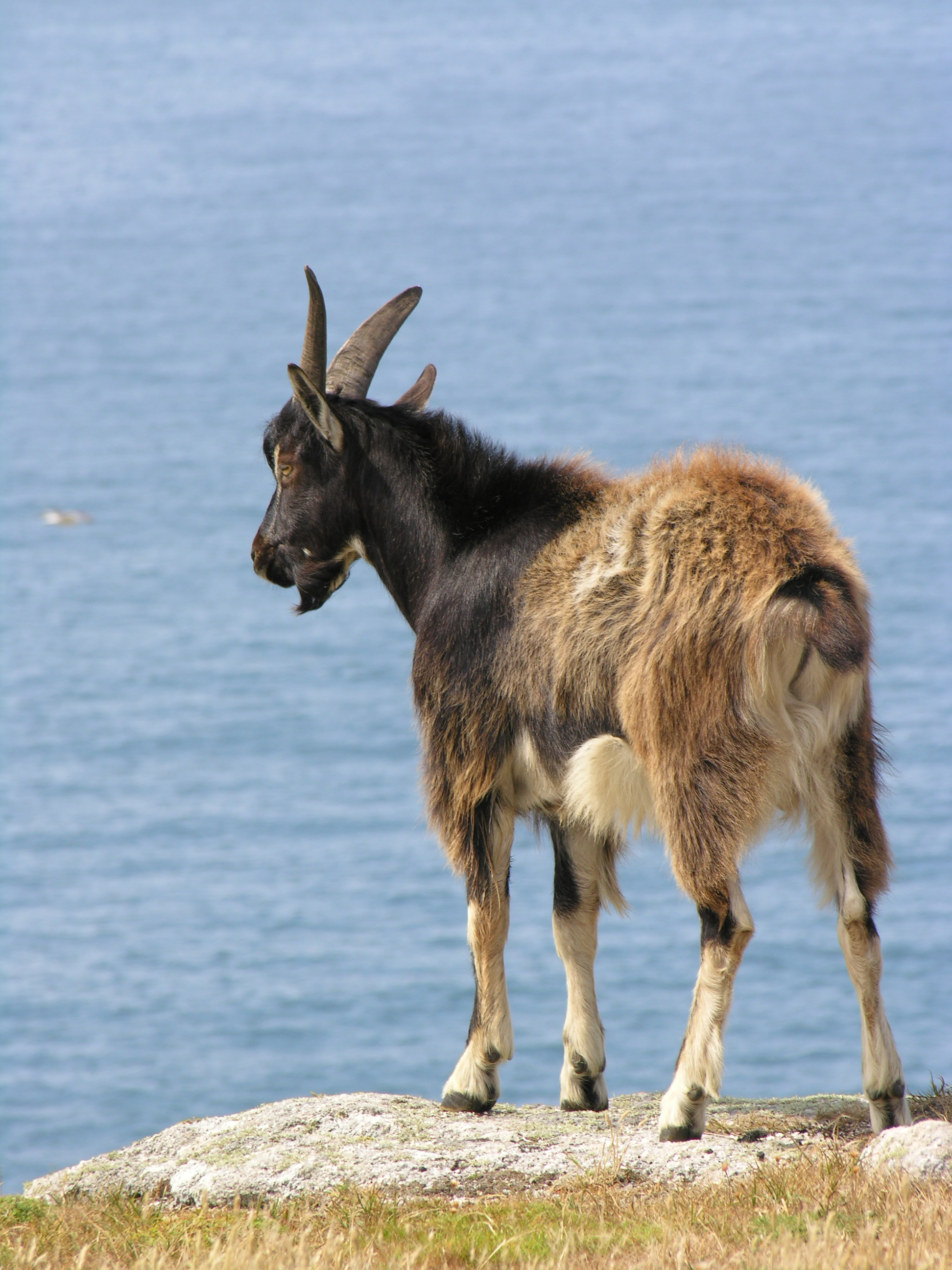 On the edge